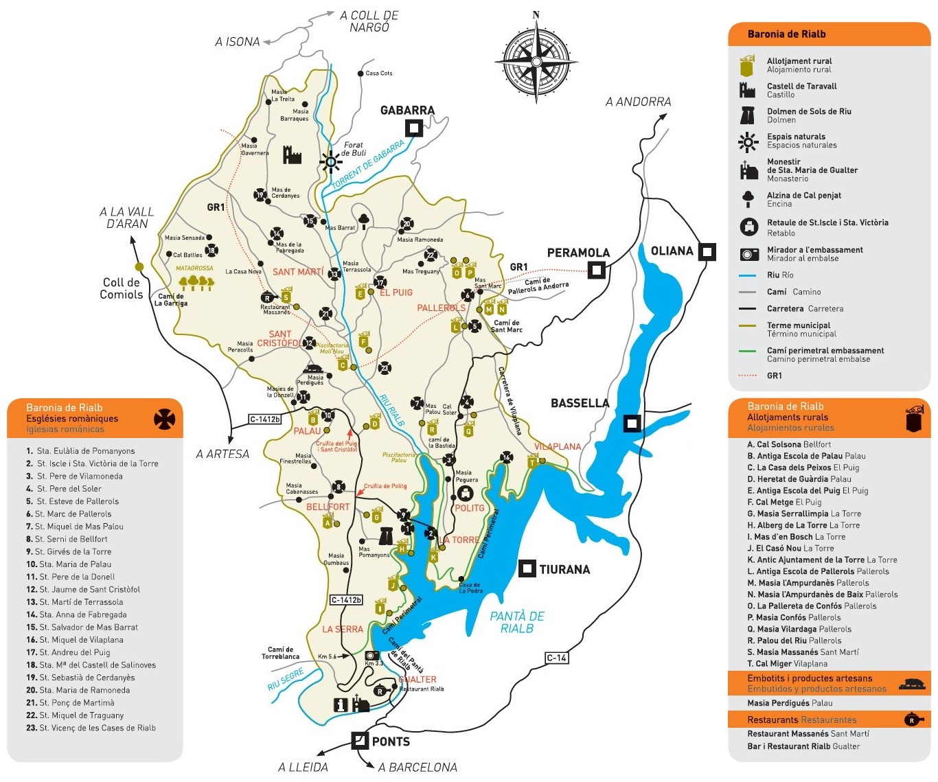 Map of La Baronia de Rialb (Catalonia) and the most important landmarks in terms of tourisme in this municipality.